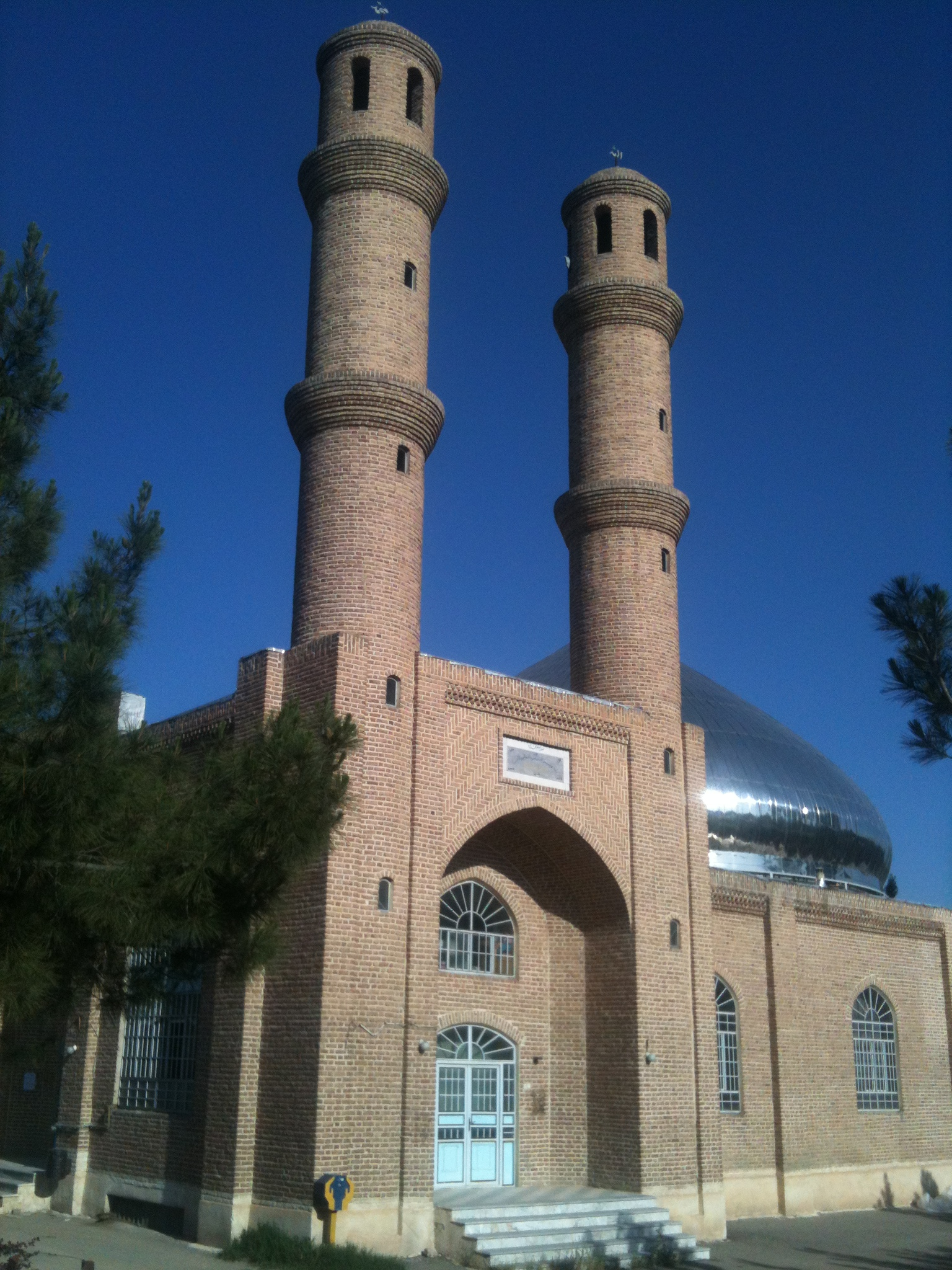 photo of nazlu mosque taken by iphone 3GS